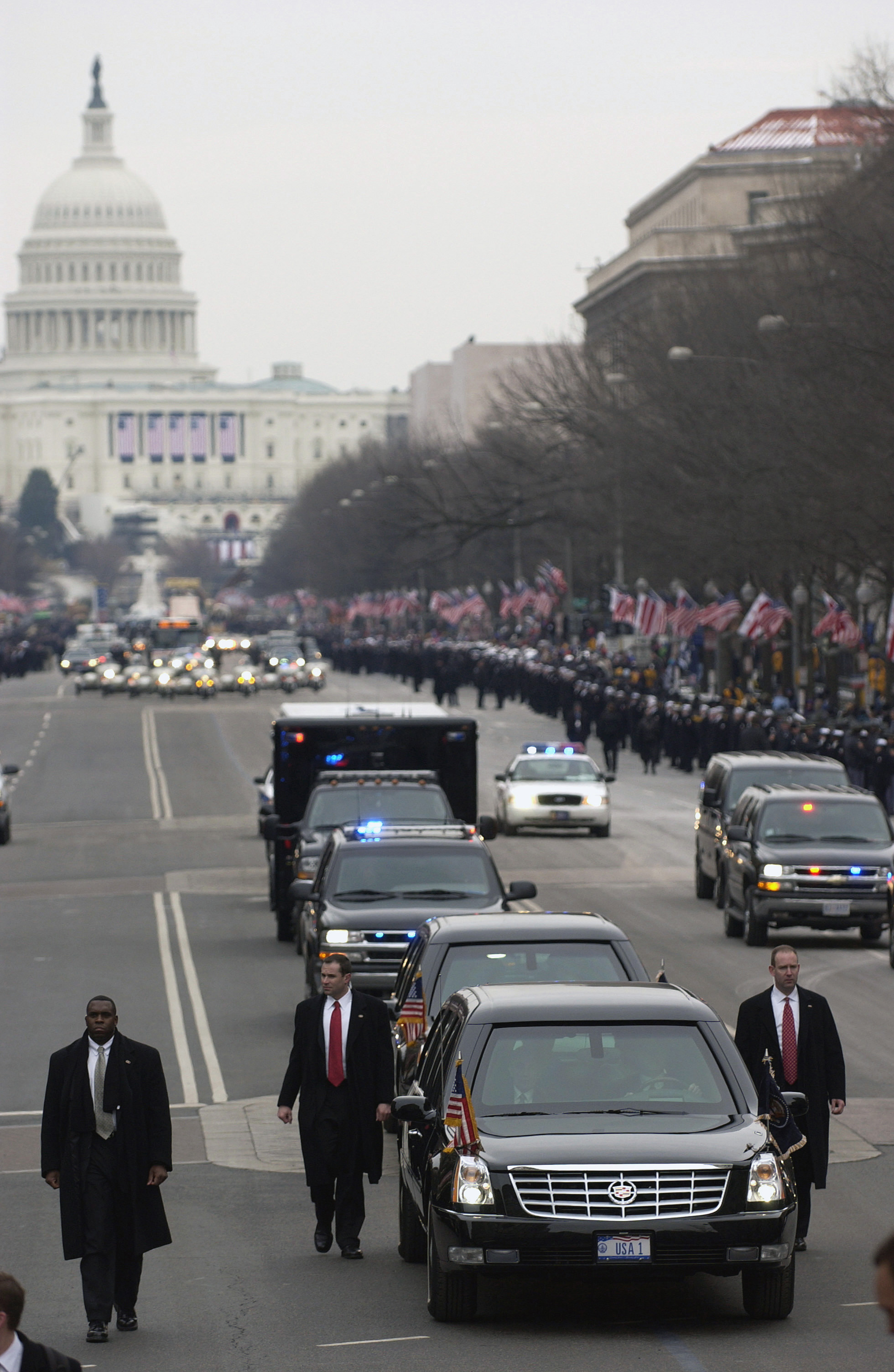 Flanked by Secret Service agents, US President George W. Bush and First Lady, Laura Bush travel the inaugural parade route inside an armored limousine headed toward the White House after renewing the oath of office earlier in the day at the nation's Capitol with thousands of spectators in attendance. (Released to Public)